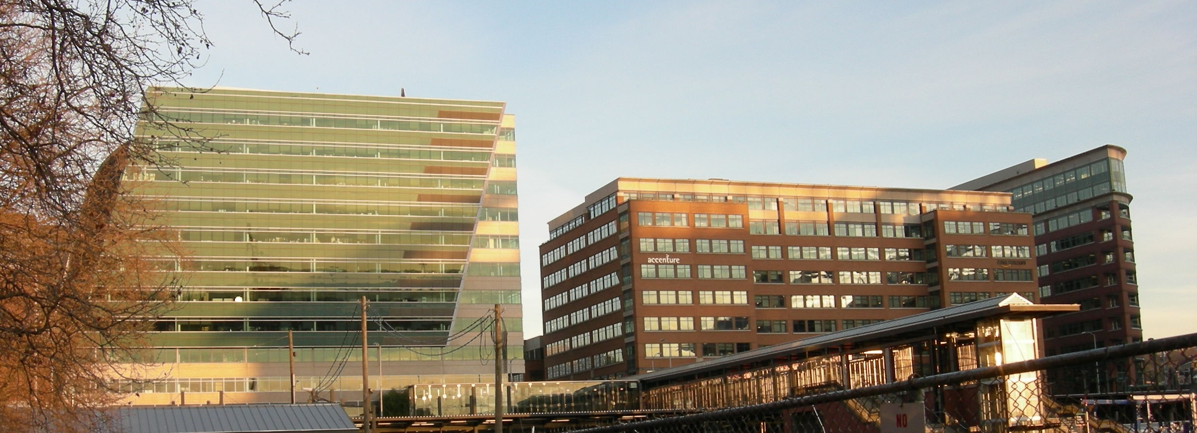 Union Station development, Seattle, Washington. Office buildings on the site of the old rail tracks behind Seattle's Union Station.